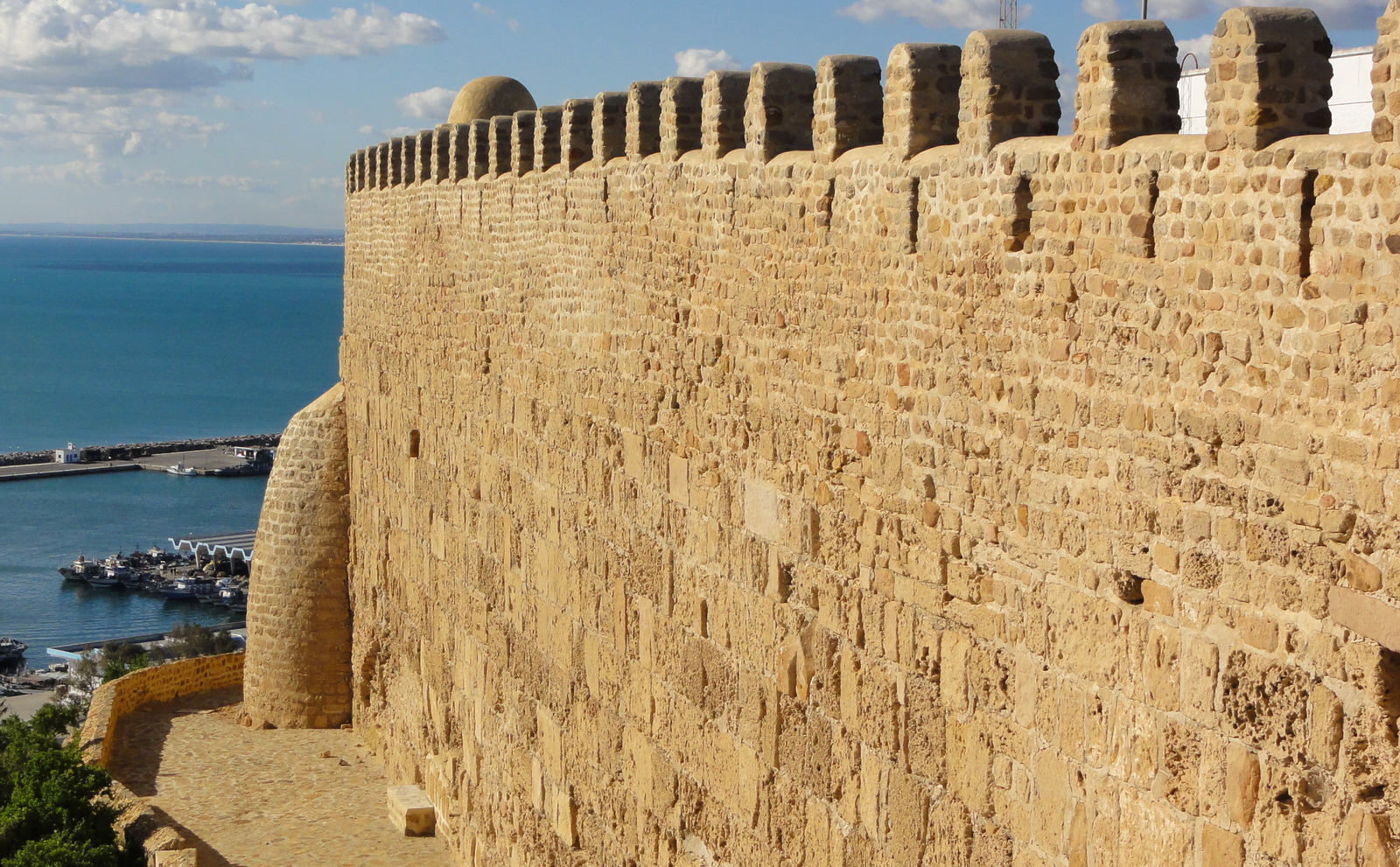 Enclosing wall of Kelibia citadel built of hewn stones with stones masonry upper wall